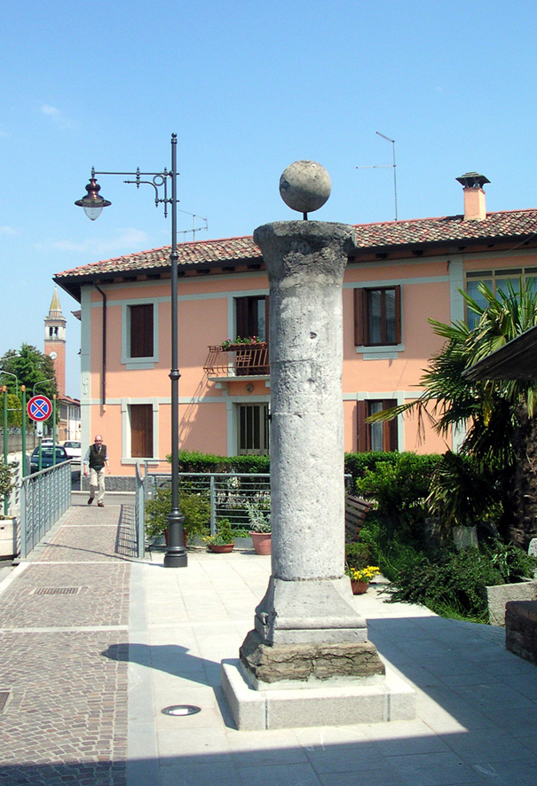 S.Maria_la_Longa,_la_Berlina